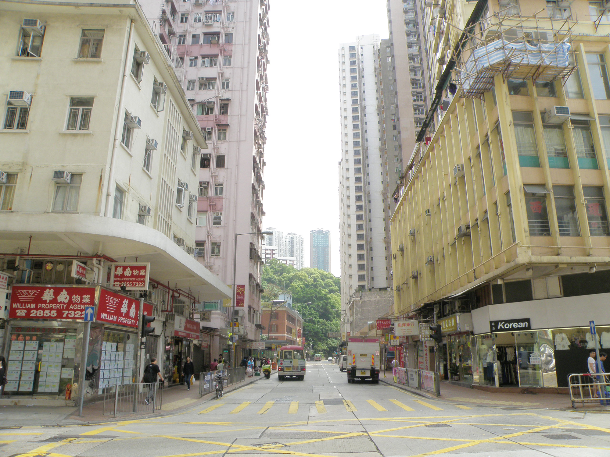 Belcher's Street in Shek Tong Tsui, Hong Kong.